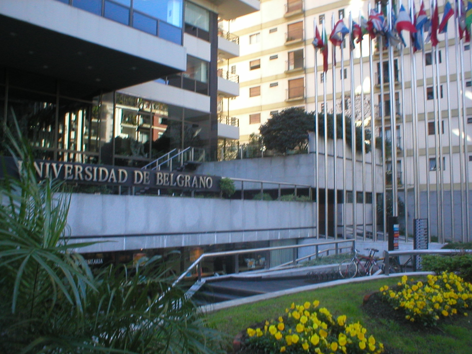 I took this picture while living in Buenos Aires. It's open to all. Svenska84 22:53, 17 May 2005 (UTC)